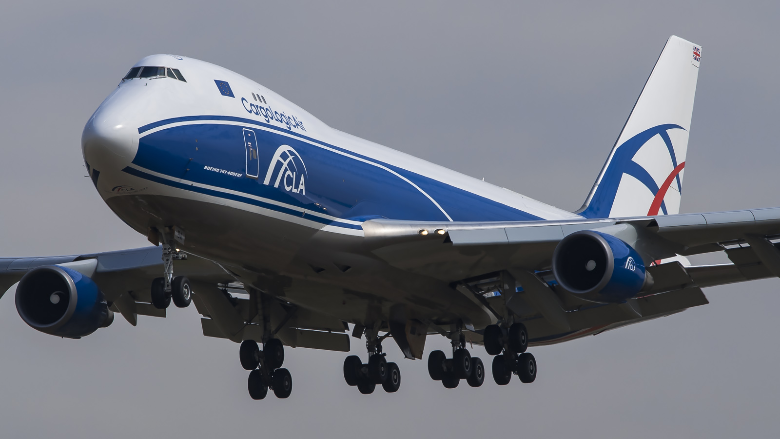 G-CLBA Boeing 747-400ERF CargoLogicAir SVO | UUEE